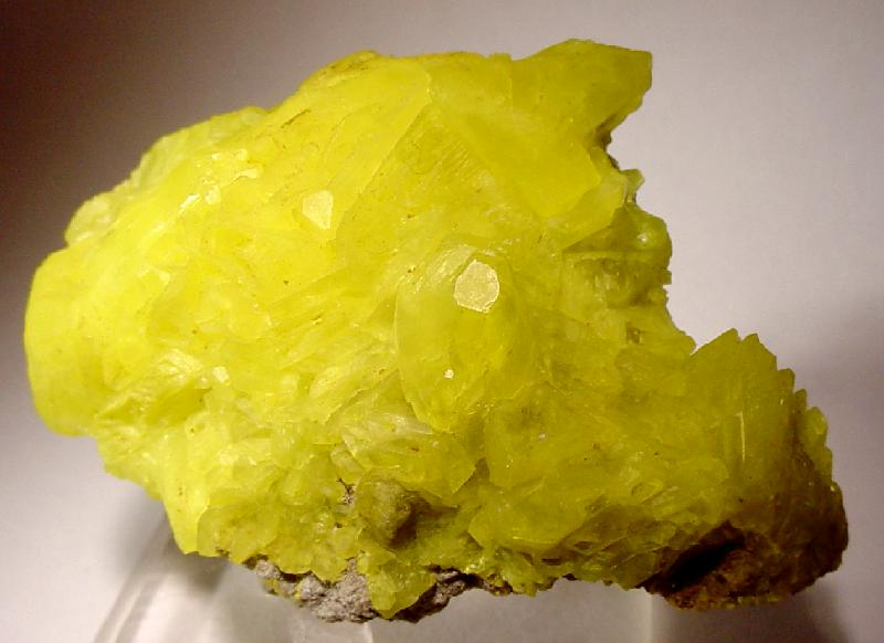 Andersonite Locality: Repete Mine, Blanding, San Juan County, Utah, USA (Locality at ) This is a GORGEOUS lemon-yellow miniature of a mineral we rarely see - and then as relatively boring small pieces or thumbnails. It is a solid cluster of intergrown crystals, with the most well-developed crystal rising almost 1 centimeter above the plane of more flattened, but larger crystals. This crystal has very good luster and an interesting flat hexagonal termination. Like many the other uranium minerals, the color is remarkably vivid. However, few of the vivid yellow uranium minerals produce crystals of such sheer SIZE and thus color impact, as what you see here. I believe this to be an extremely significant specimen. 5.2 x 3.6 x 1.5 cm